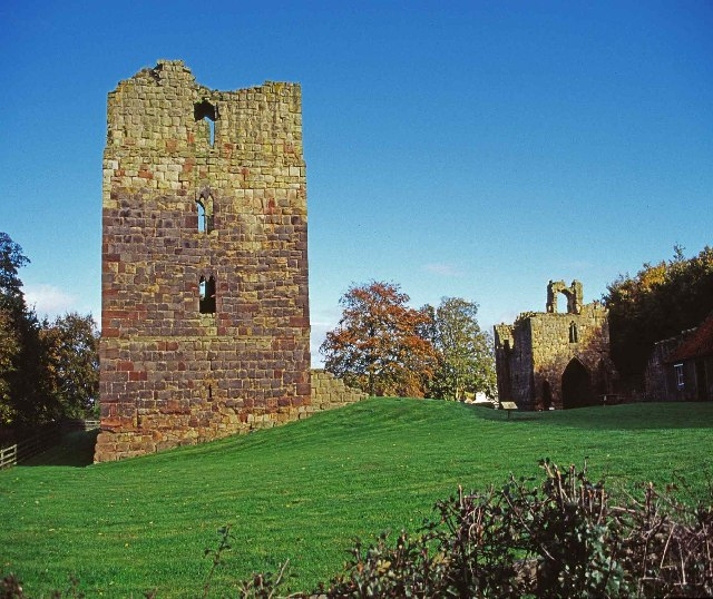 Etal Castle, Cornhill-on-Tweed, Northumberland